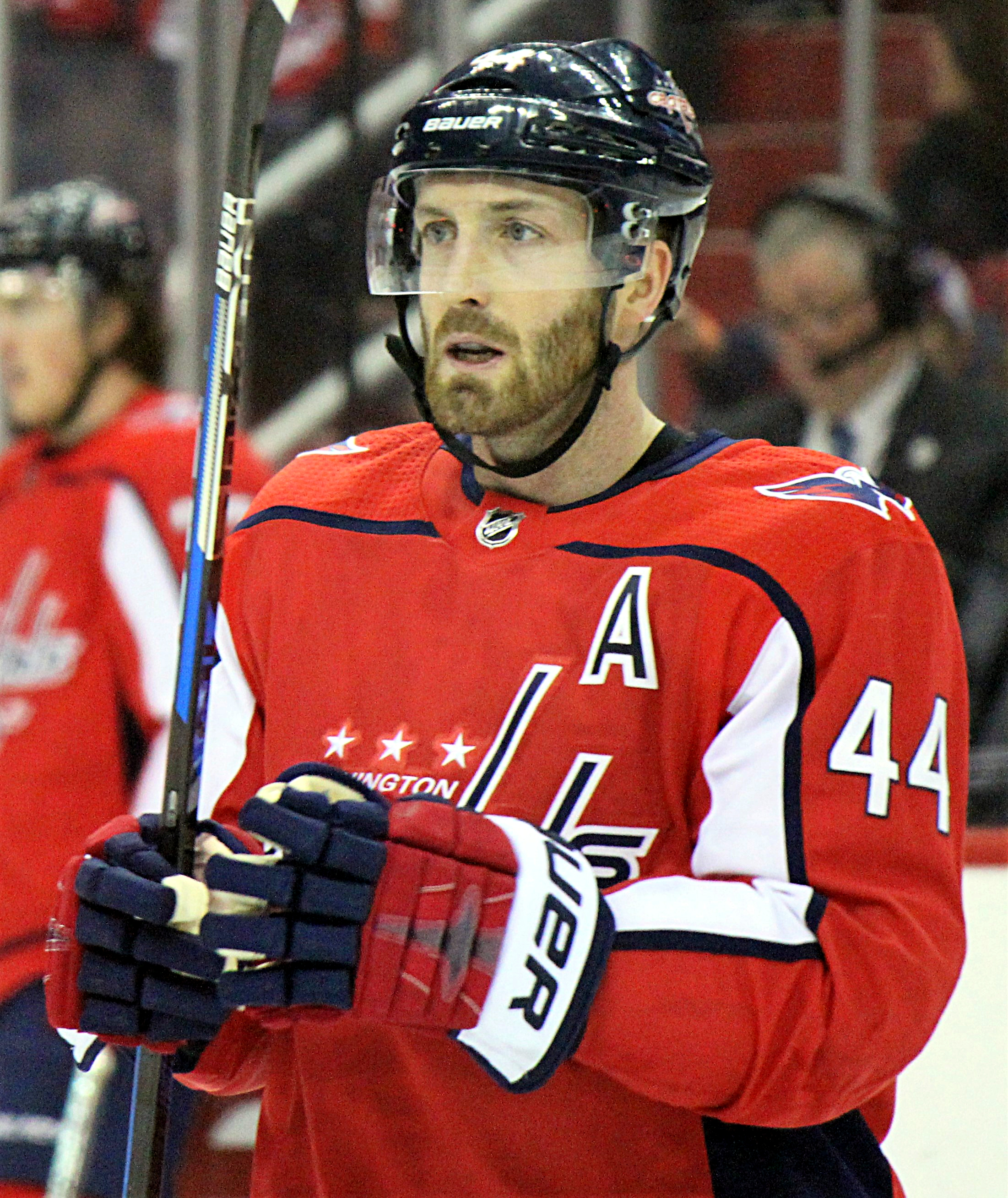 Washington Capitals defenseman Brooks Orpik during a game against the Vegas Golden Knights, February 4, 2018, at Capital One Arena in Washington, D.C.